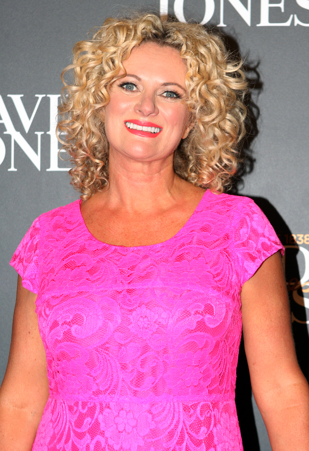 Fashion designer Trelise Cooper at David Jones AW13 Fashion Launch